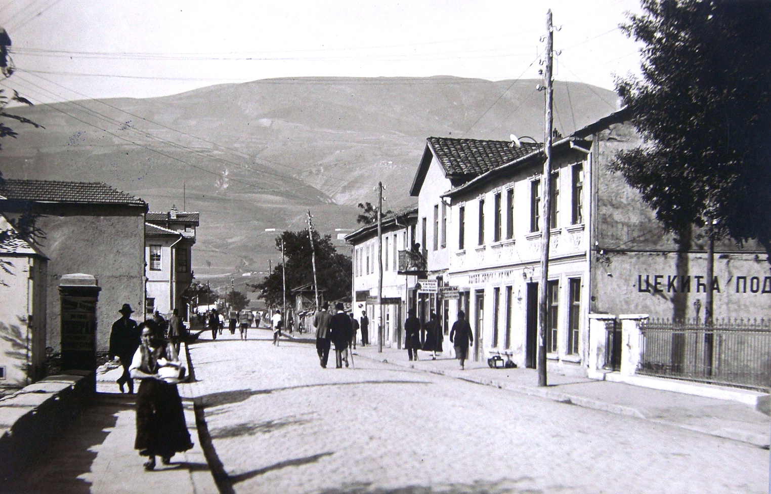 Historical images of Skopje: A part of Skopje. This media file is produced by Wikipedian in Residence in Category:Wikipedian in Residence at DARM in 2016.